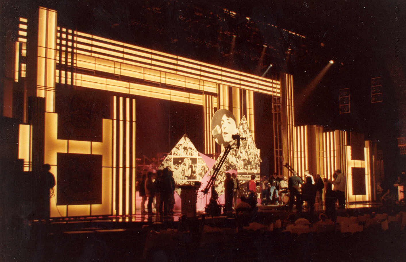 Crew prepare a set for Paul McCartney's number at Grammy rehearsal 2/20/90 - Permission granted to copy, publish, broadcast or post but please credit "photo by Alan Light" if you can